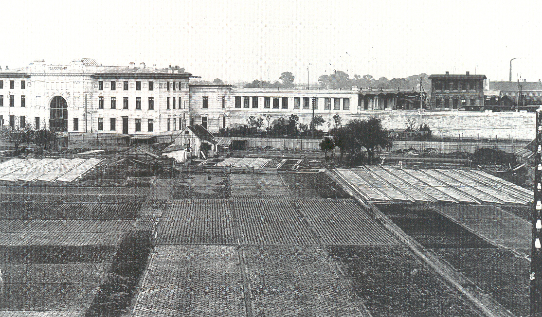 Railway station of Heiligenstadt in Vienna, in the foreground market gardens – the area where 1927–1930 the Karl Marx-Hof was built.